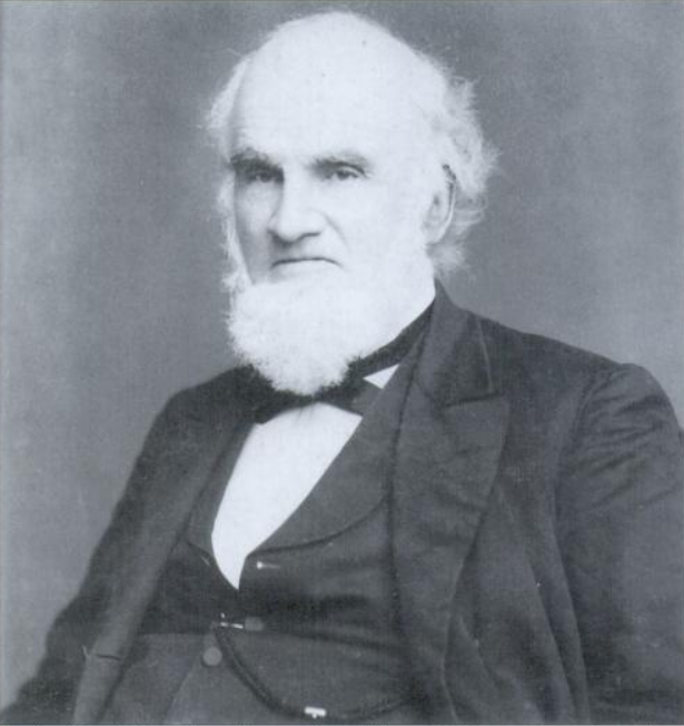 Photograph of Jonathan Blanchard. Blanchard died in 1892.